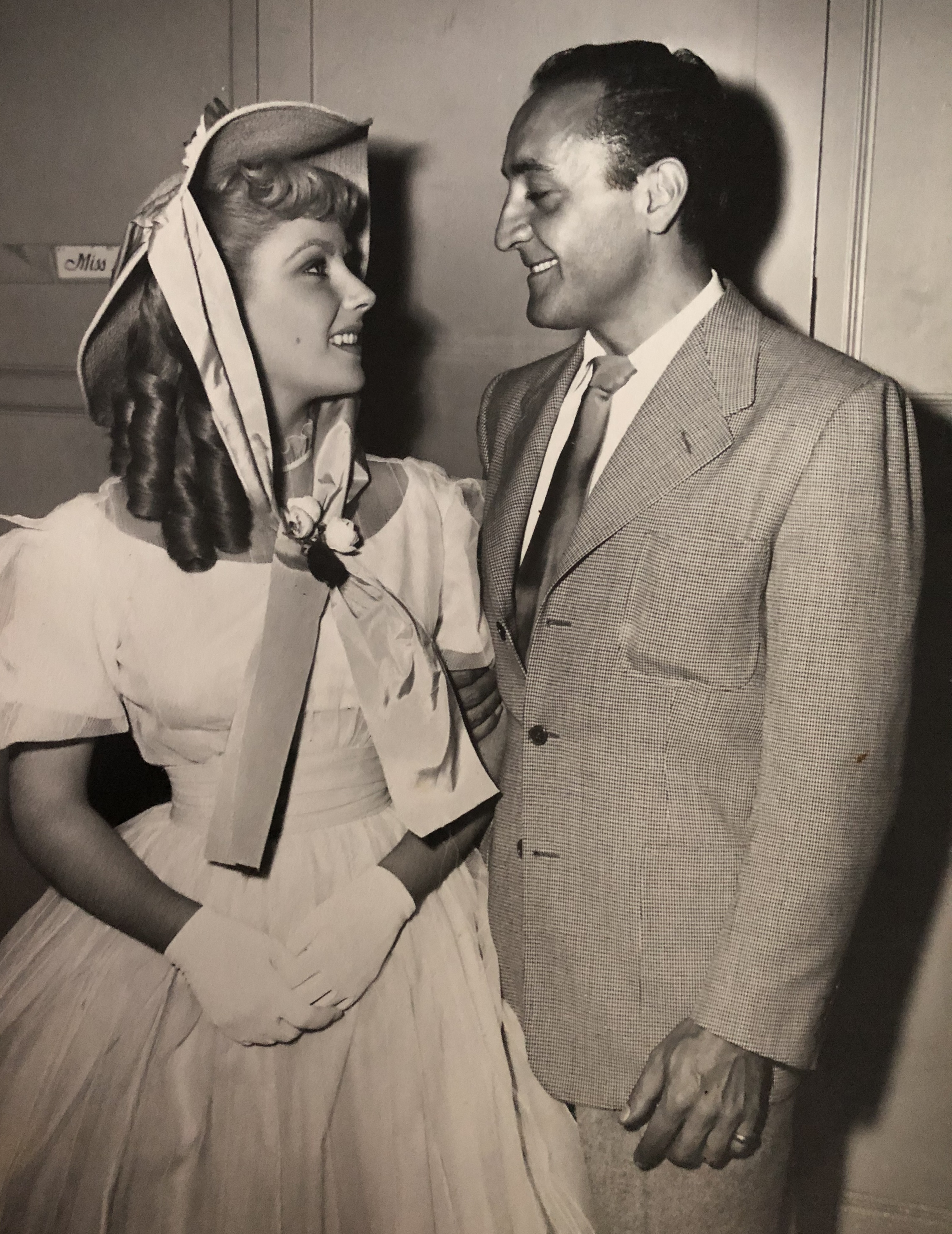 During shooting break, Elizabeth Taylor in costume for her role as one of the March sisters in Little Women, 1949, with Andrew Solt, the film's screenwriter